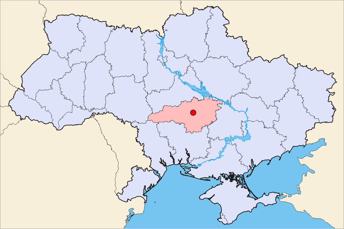 Description = Kirovohrad geographical position Source = own work, Skluesener Date = 15.01.2006 Author = Skluesener Credits = Colours chosen according to a map of steschke